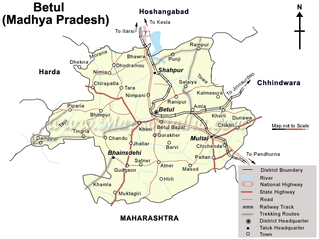 the image was downloaded from google maps.